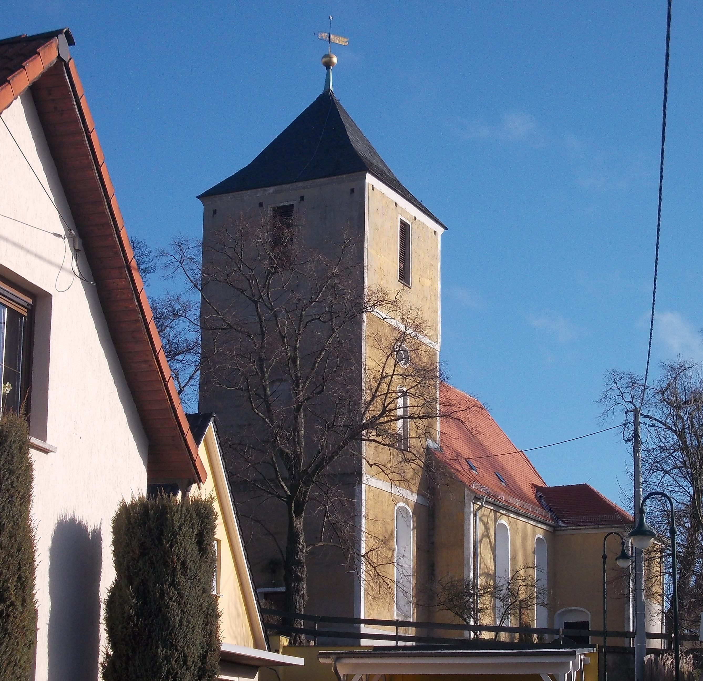 Polenz church (Brandis, Leipzig district, Saxony)